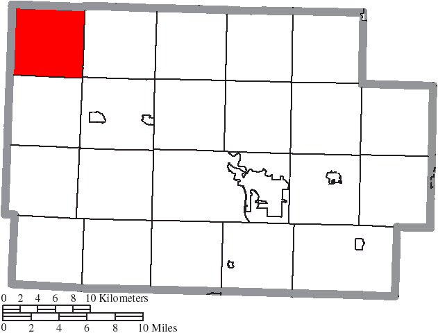 Map of the municipal and township boundaries of Coshocton County, Ohio, United States, as of the 2000 census, with the location of Tiverton Township highlighted. Township borders are shown only in unincorporated areas in order to differentiate incorporated and unincorporated areas more clearly.